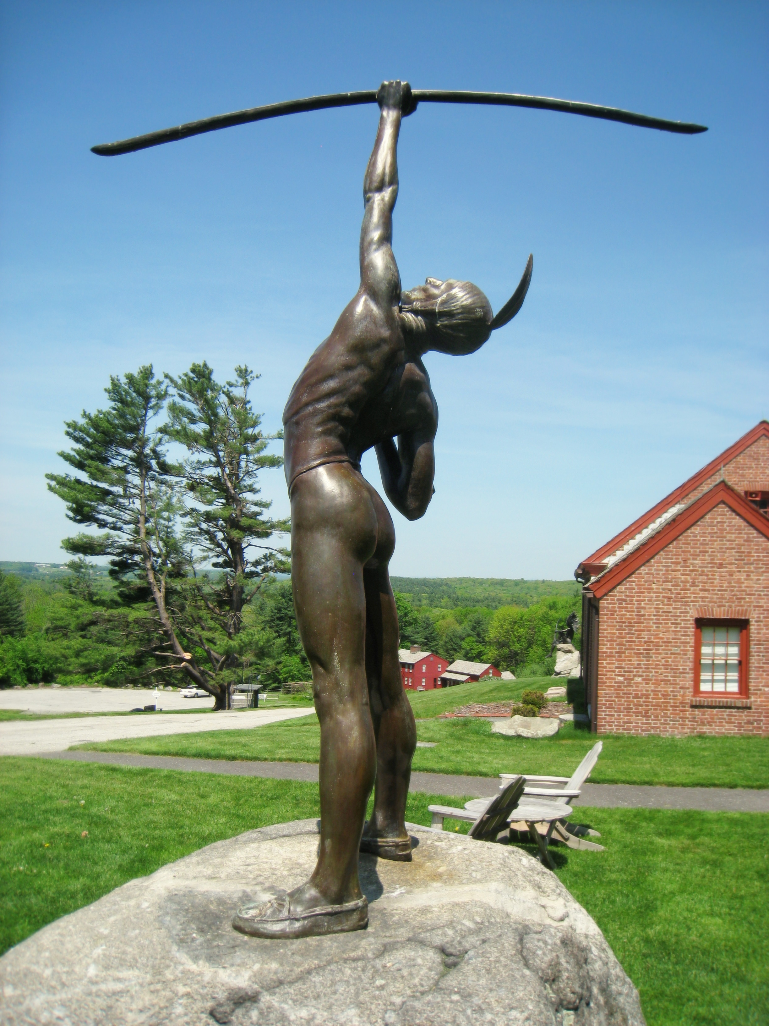 Fruitlands Museum, Harvard, Massachusetts, USA. Statue of Pumanangwet (He Who Shoots the Stars), 1929, by Philip Shelton Sears. Smithsonian Inventory of American Sculpture MA000521.